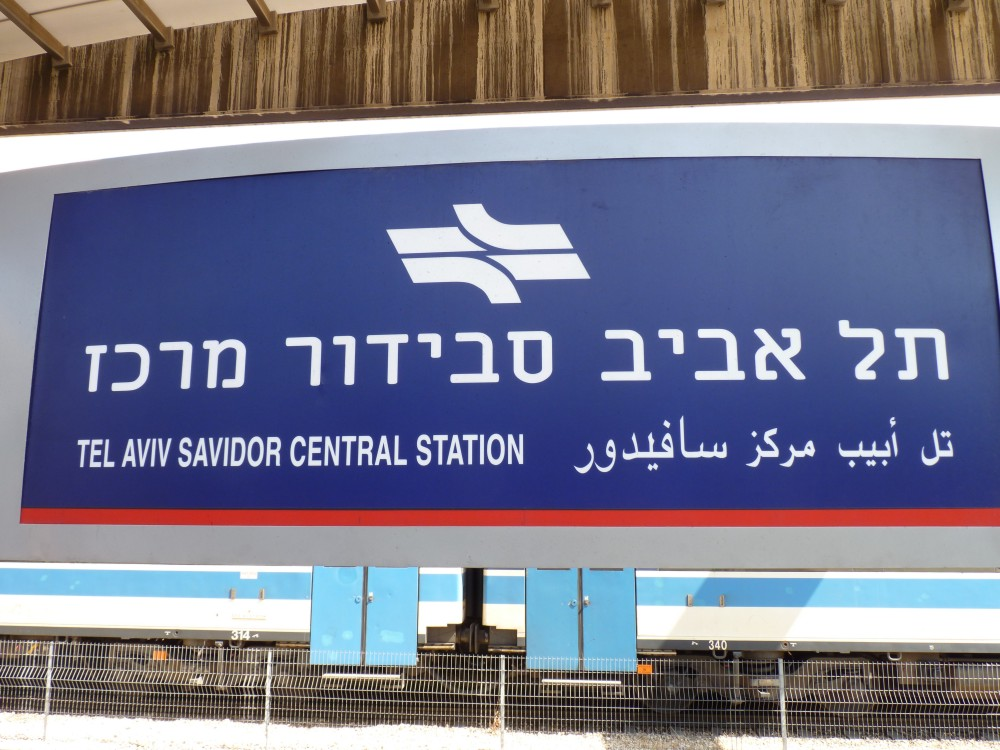 Sign at Tel Aviv Central station, Israel